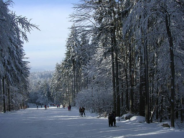 Ski slope Křemešník